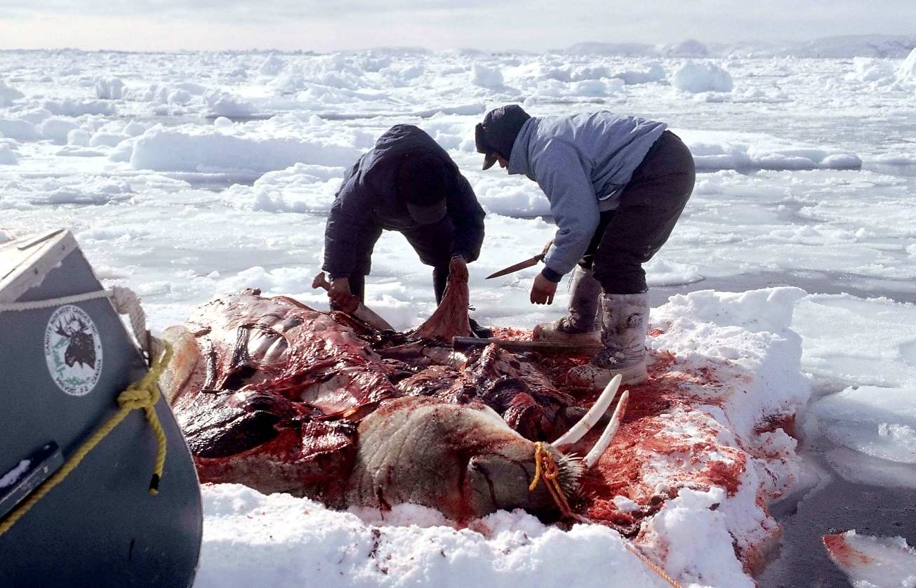 Atlantic walrus (Odobenus rosmarus rosmarus), hunt on ice floe in Hudson Strait near Cape Dorset (Nunavut, Canada) III